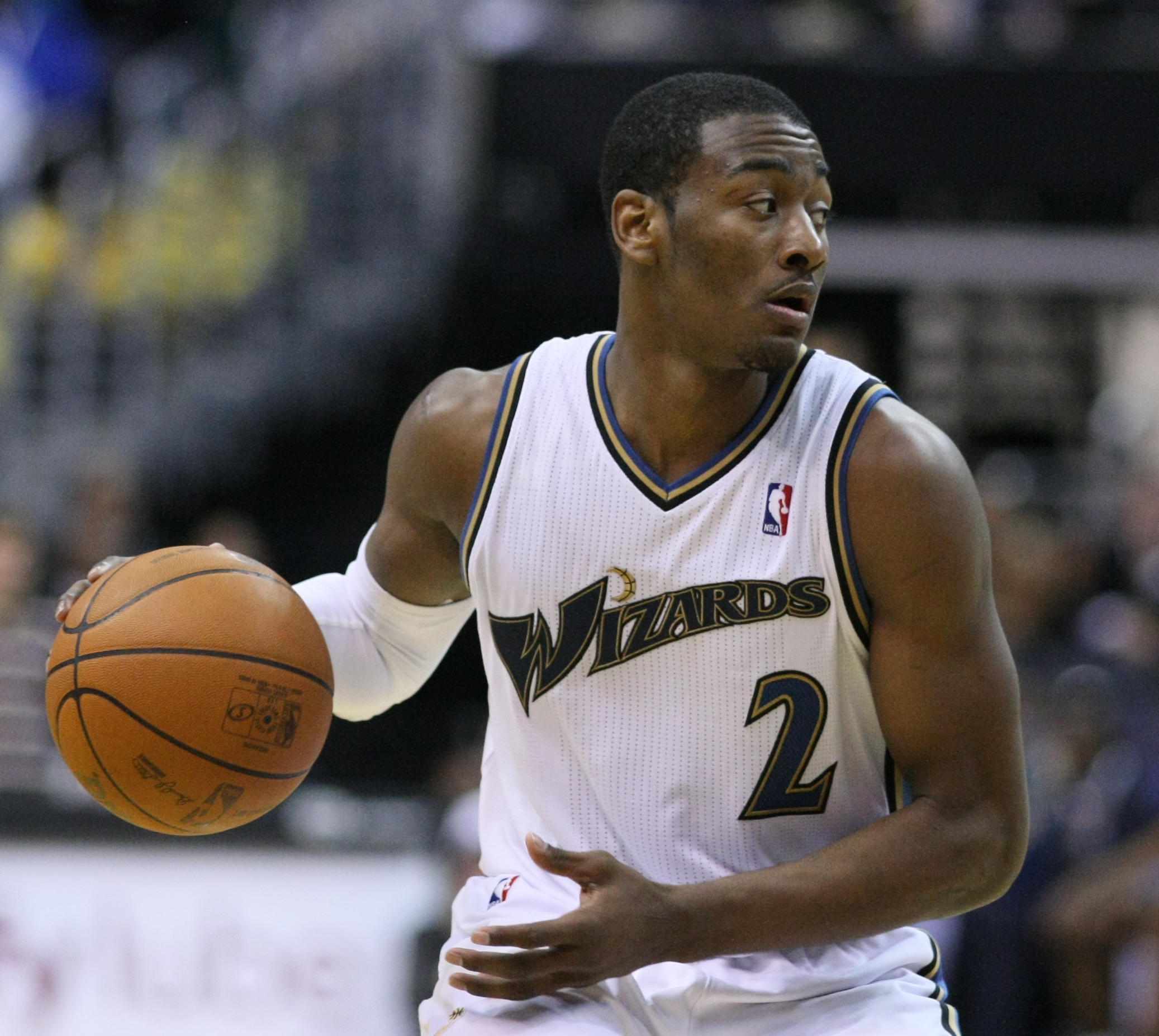 Washington Wizards v/s Philadelphia 76ers November 23, 2010